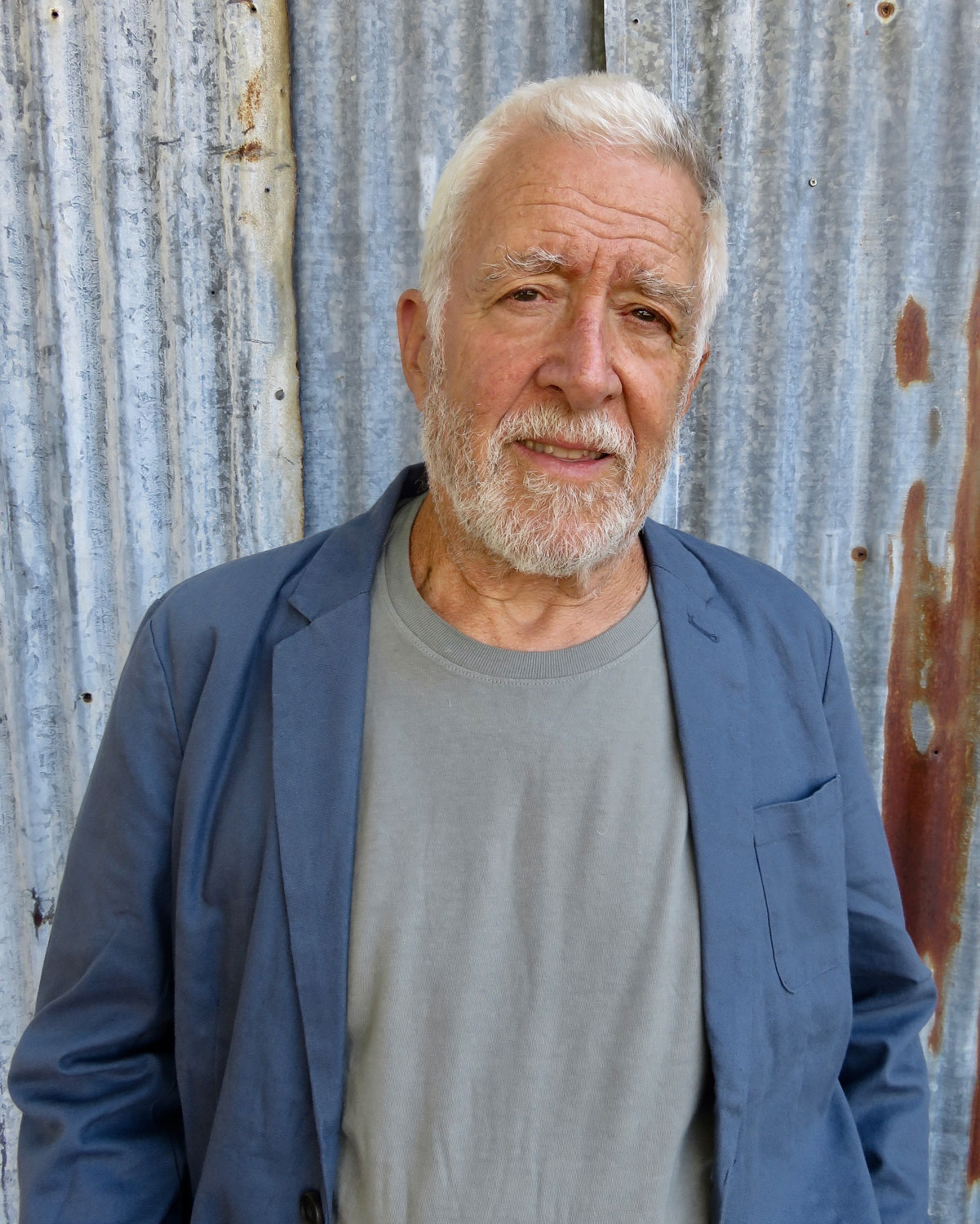 Les Stransell's photo portrait of Phil Stanford for iheart media podcast